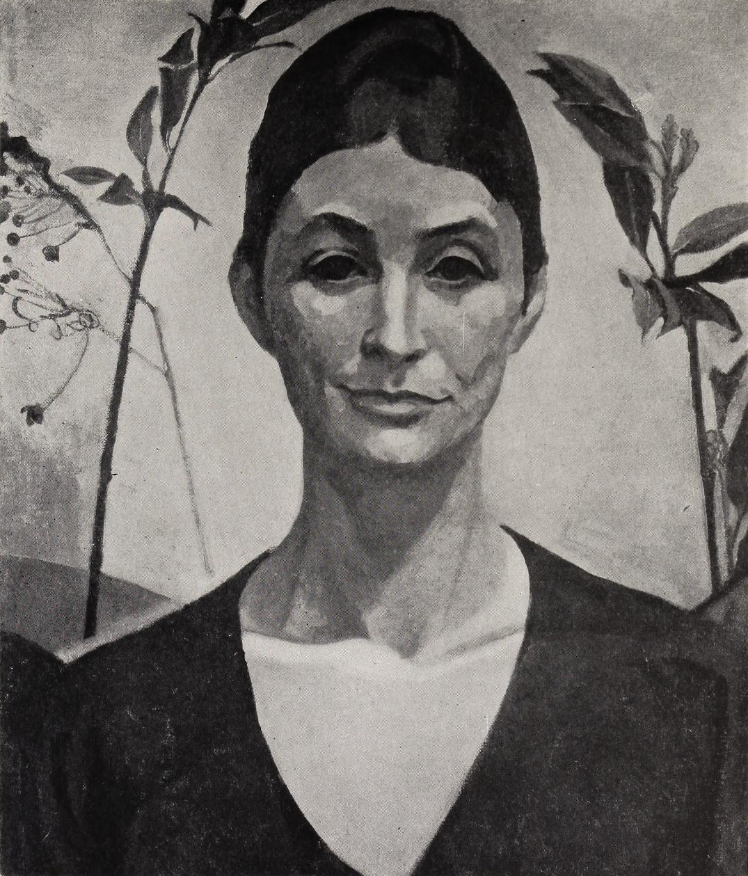 Portrait of Georgia O'Keeffe